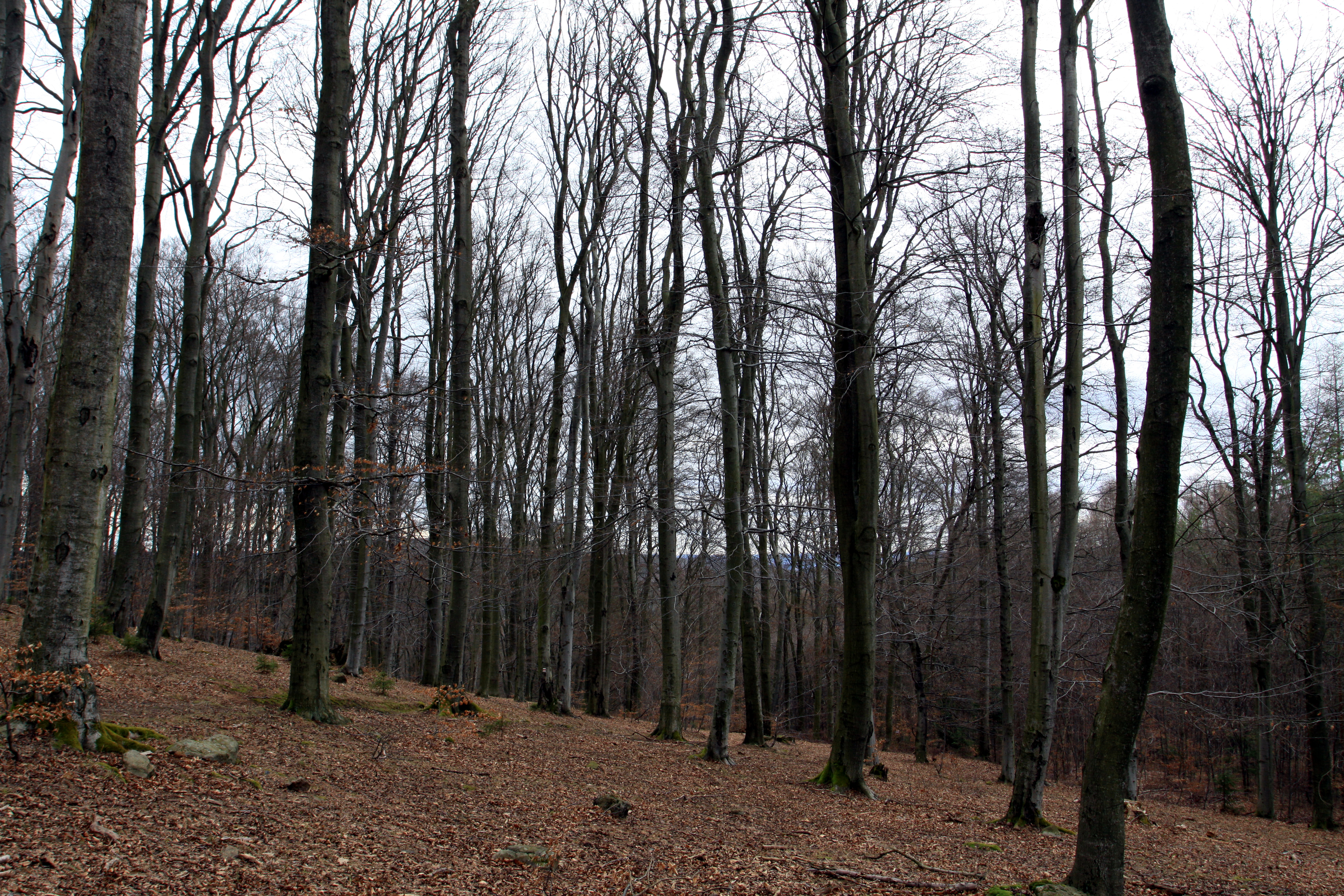 Nature reserve Grabla near Krhanice village in Benešov District, Czech republic